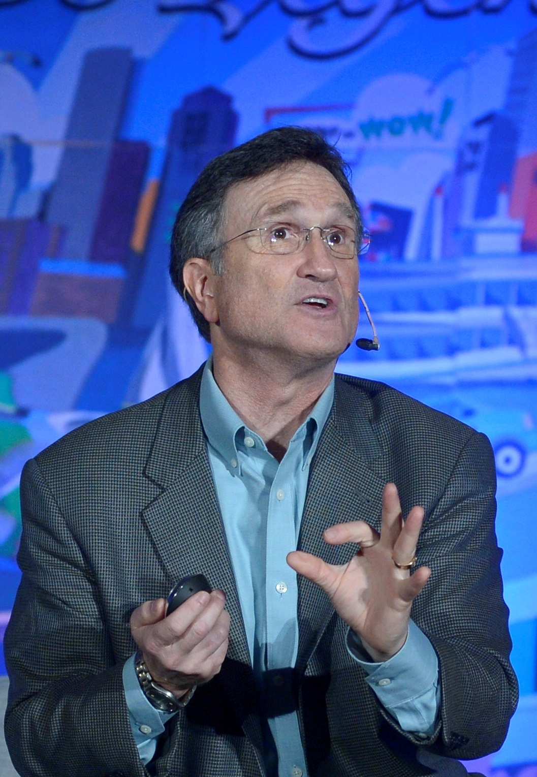 This is a photo of Doug Lipp.